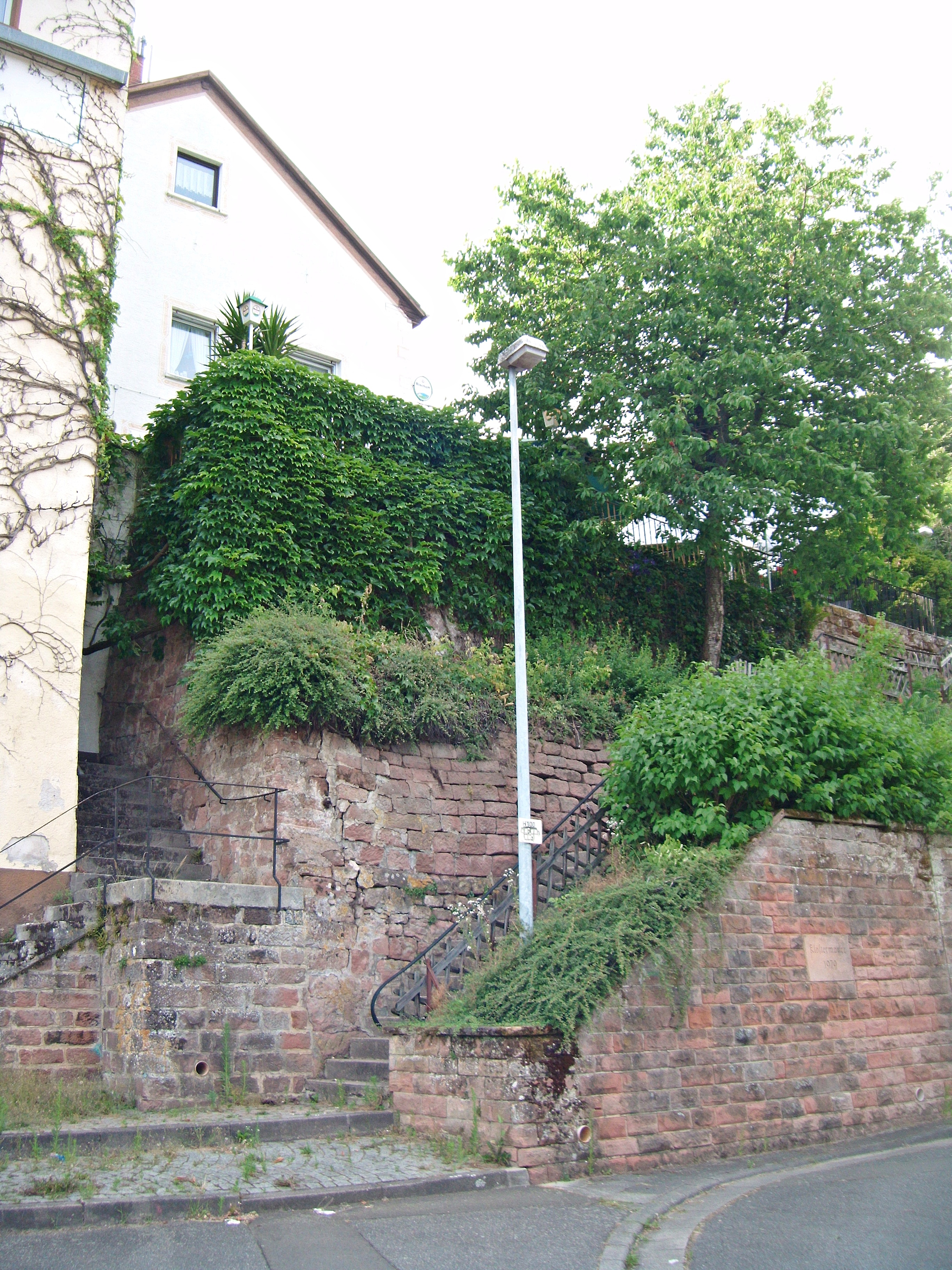 Fischbach Klostermauer